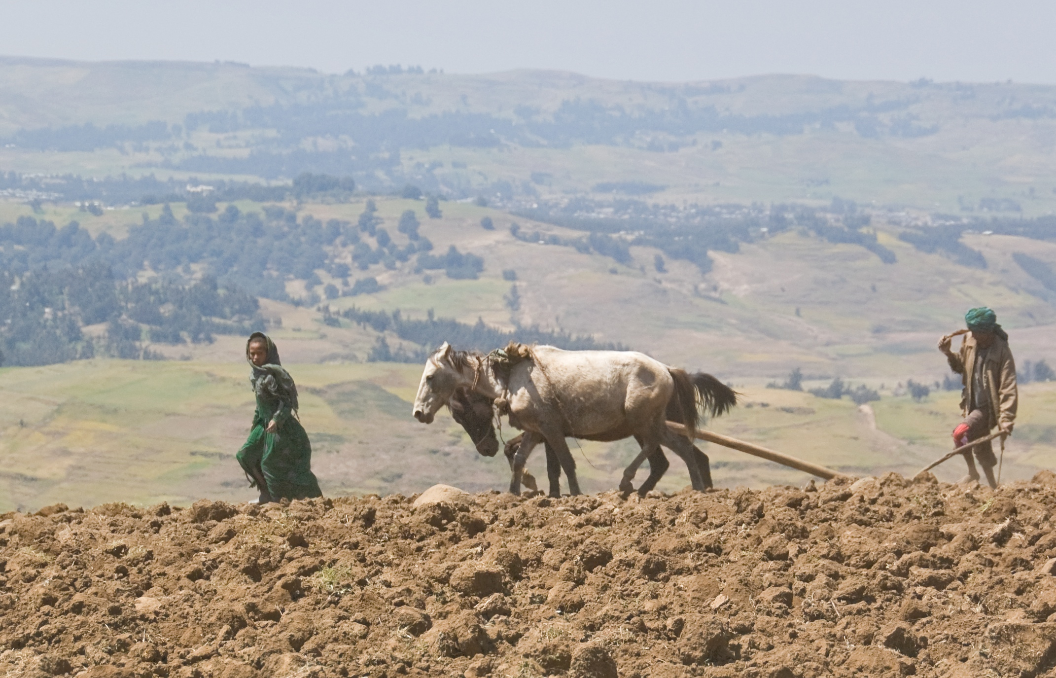 Plowing with horses.